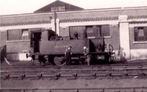 Tank Engine 85 Alderney. Photographed at Southampton Docks during 1947. This Engine was a London and South Western Railway B4 Class, one of 14 allocated as Southampton Docks shunters and given names.